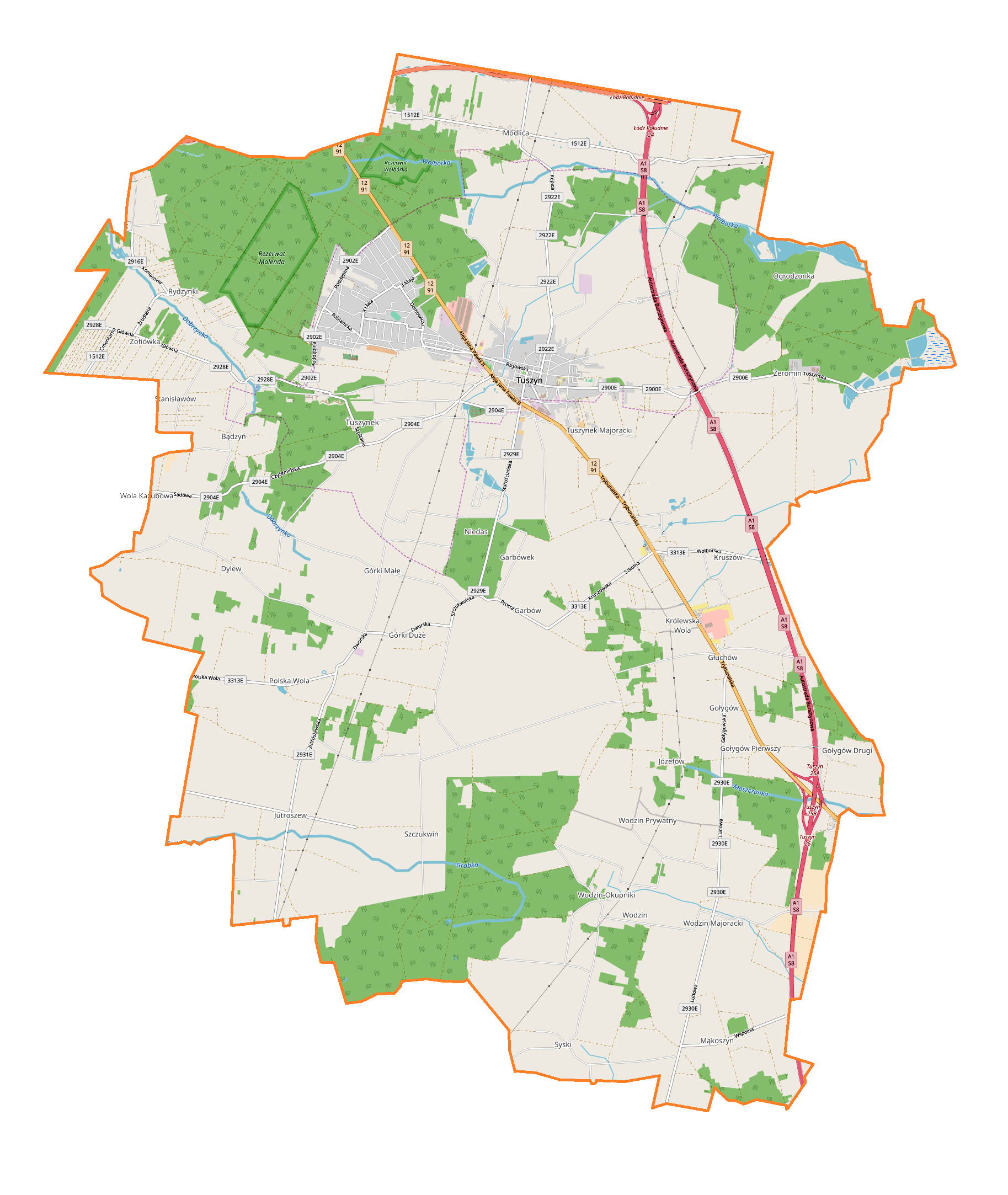 Location map